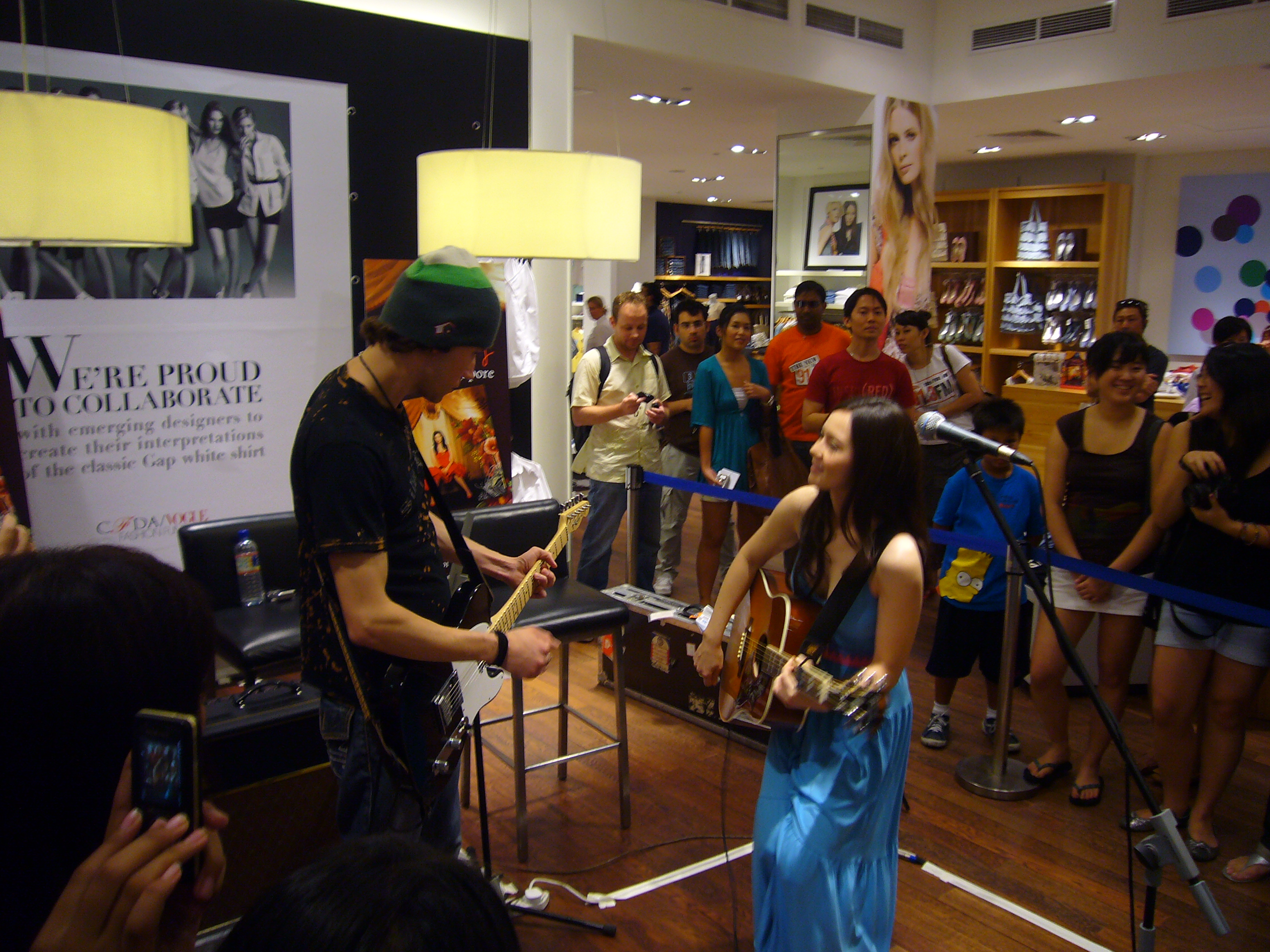 Marié Digby's showcase at GAP, Wisma Atria in Singapore.